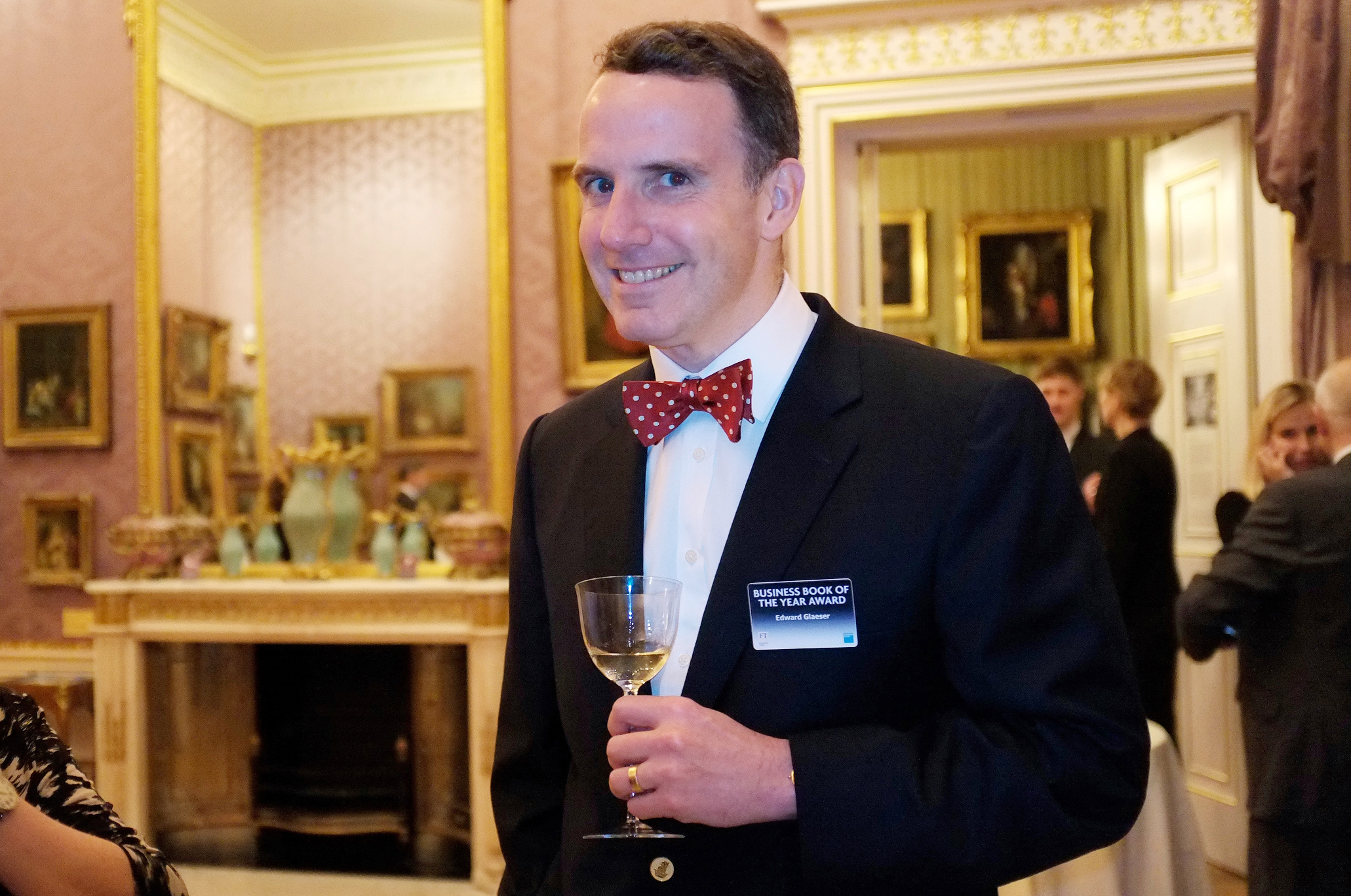 Edward L. Glaeser, Author